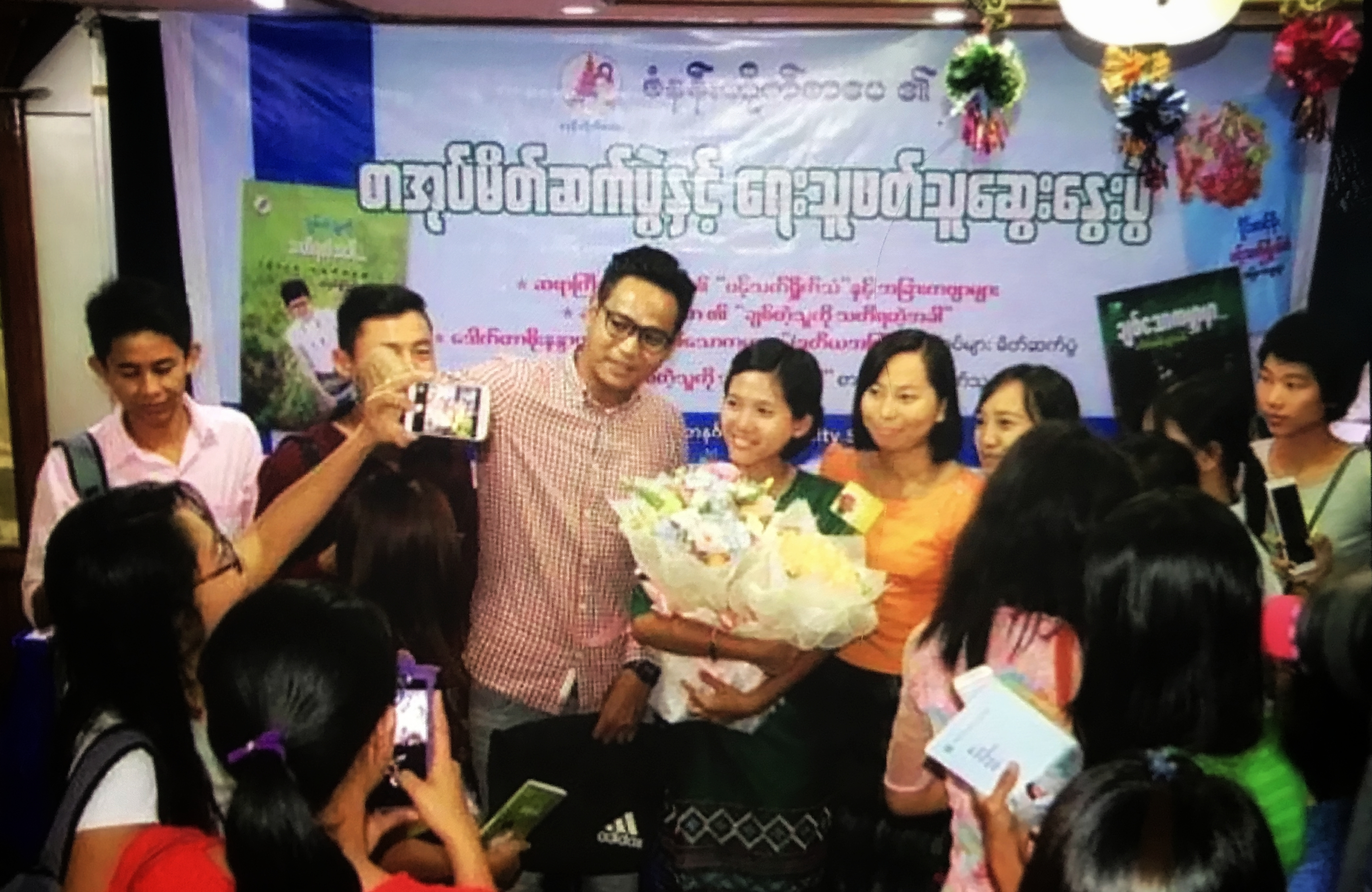 Khin Hnin Kyi Thar in 201u